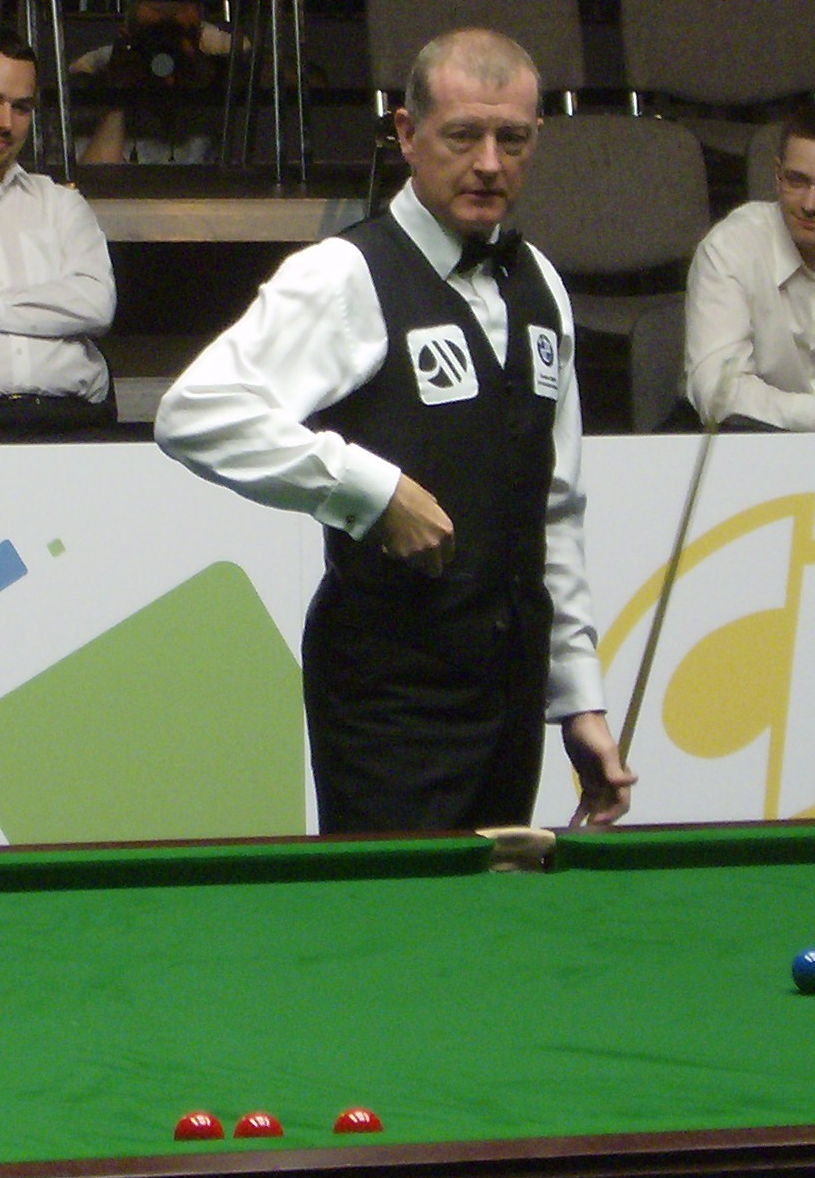 Steve Davis on the Warsaw Snooker Tour, 16 June 2007